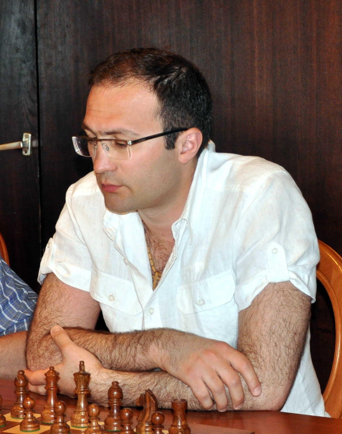 GM David Shengelia, Pula Open 2011.